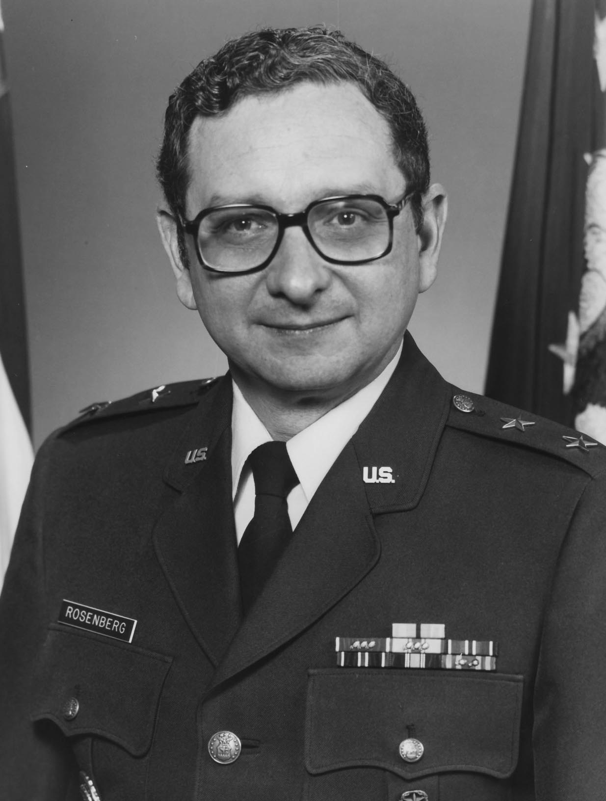 Major General Robert A. Rosenberg of United States Air Force was director of Defense Mapping Agency from July 1985 to September 1987.